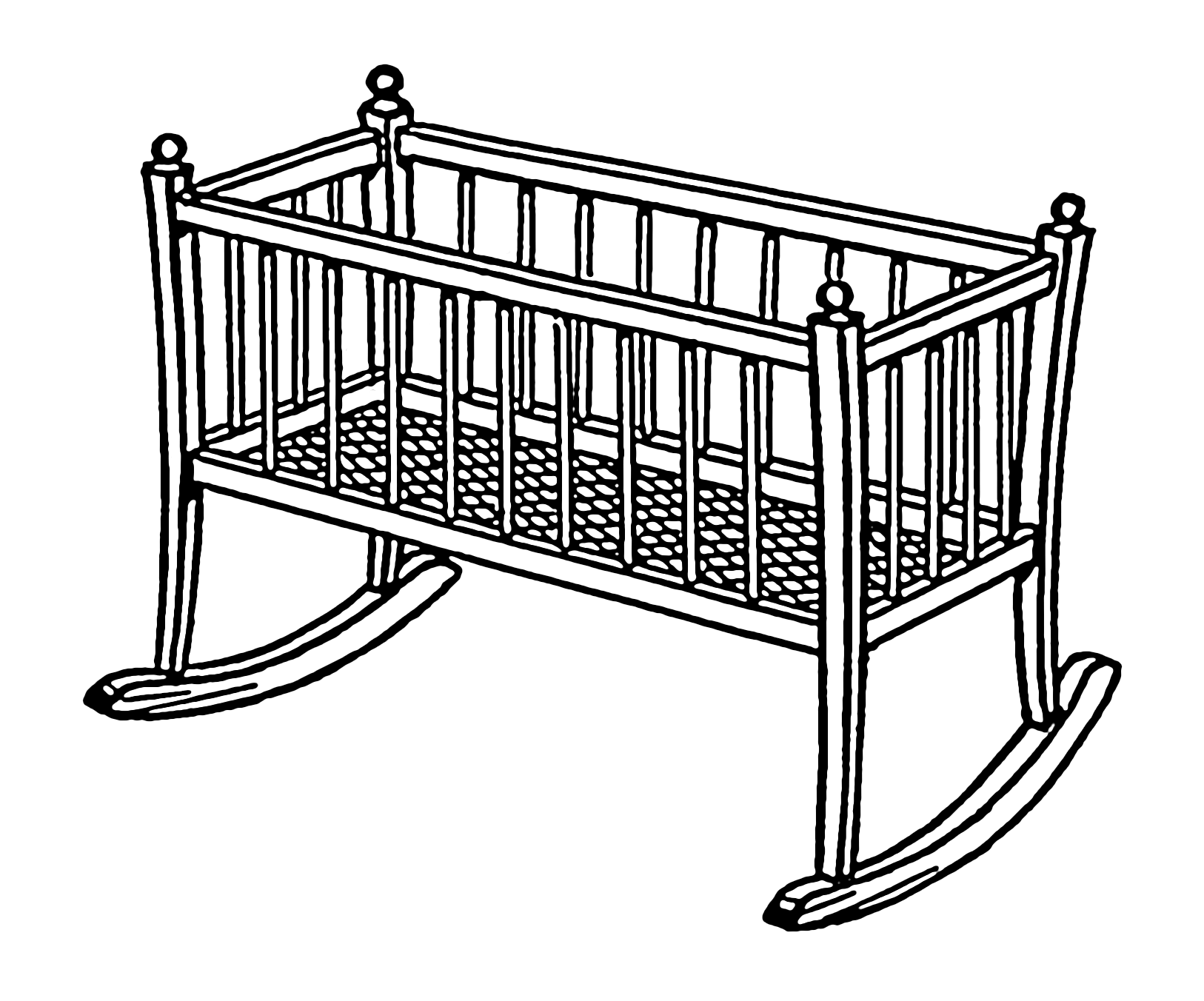 Line art drawing of a cradle.